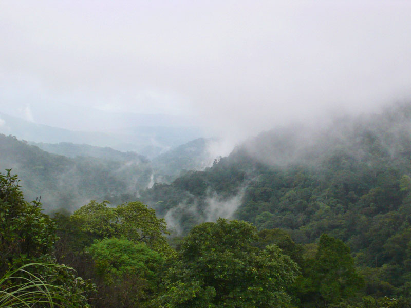 Valley within the Brahmagiri wildlife sanctuary which is part of the western ghats